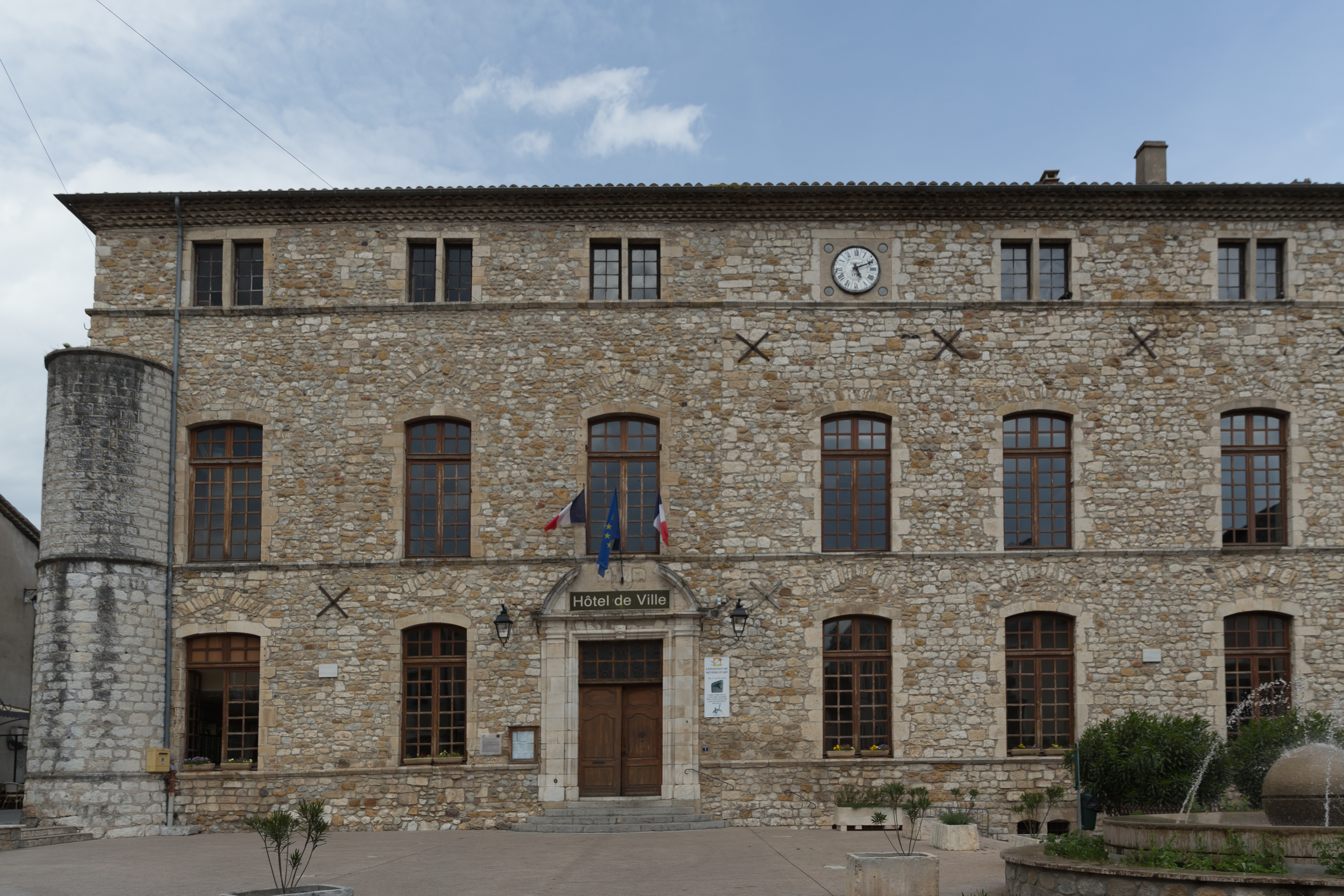 Southwest face from town hall of Vallon-Pont-d'Arc, France.